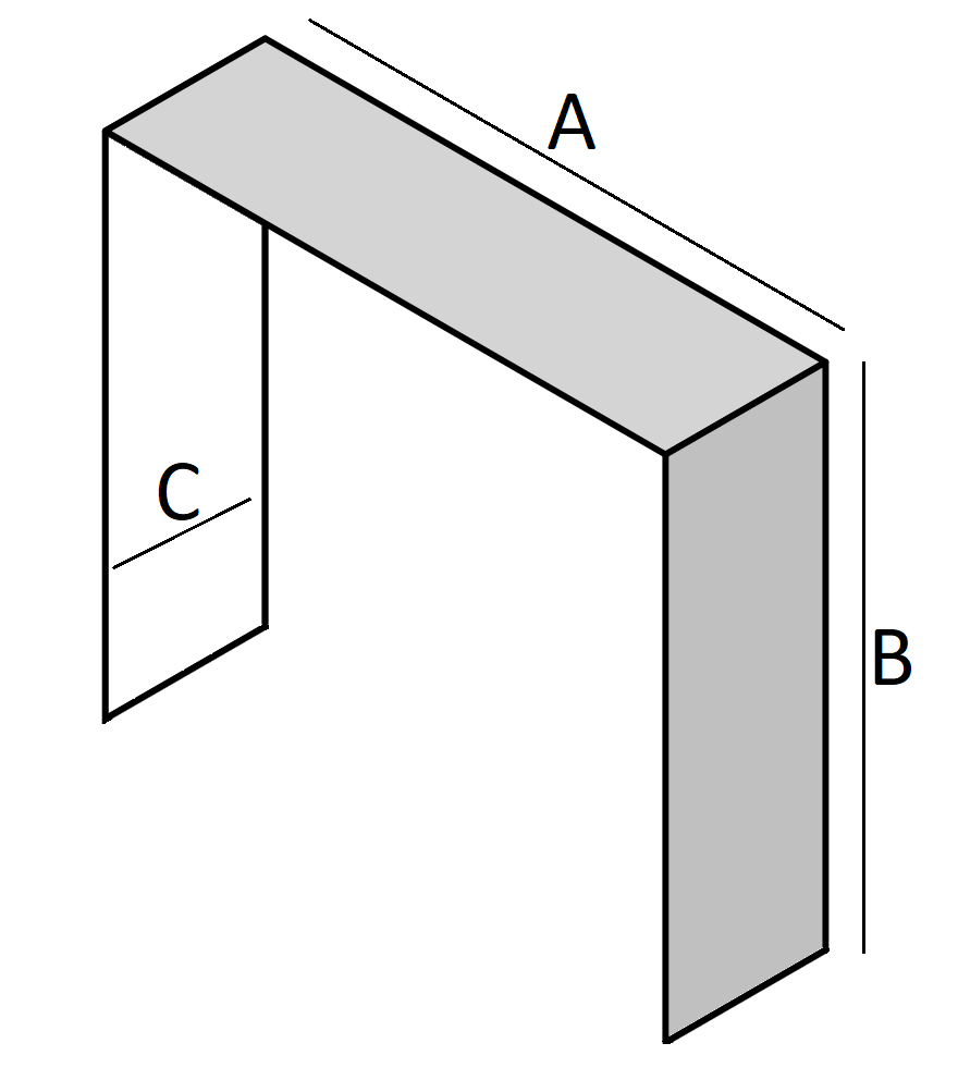 Staple diagram with letters A, B and C for legend in other languages.